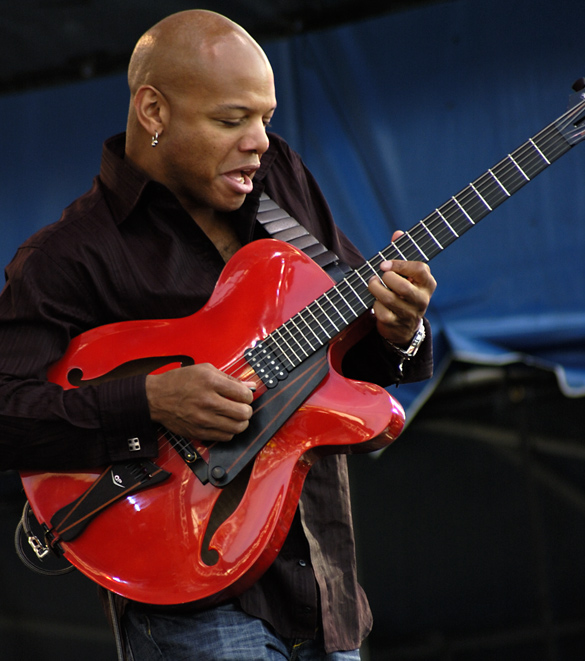 Mark Whitfield performing with Chris Botti at the 2006 Newport Jazz Festival.